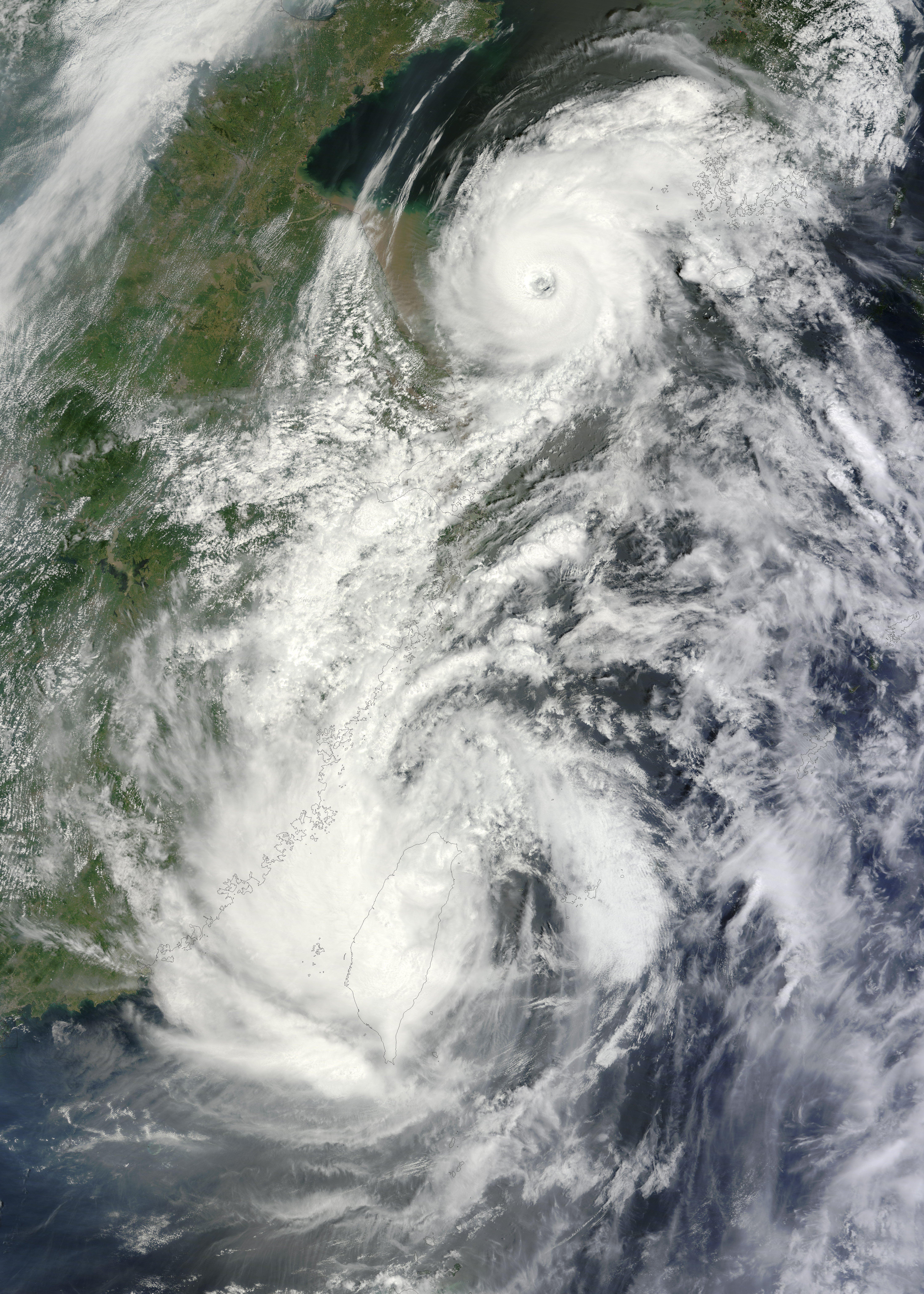 Two severe storms, Damrey and Saola, made landfall in southeastern China within hours of each other on August 3, 2012. The first storm to arrive, Damrey, came ashore in Jiangsu Province. Saola made landfall in Fujian Province. The storms could ultimately affect coastal areas in 10 provinces, Xinhua News Agency warned. The Moderate Resolution Imaging Spectroradiometer (MODIS) on NASA’s Terra satellite captured this natural-color image of the storms as they approached the China coast on August 2, 2012. Saola’s clouds engulfed Taiwan, but the storm looked less organized than it had the day before. The smaller storm, Damrey, sported a distinct eye, and actually packed stronger winds on August 2. The U.S. Navy’s Joint Typhoon Warning Center (JTWC) reported that Saola had maximum sustained winds of 45 knots (85 kilometers per hour) and gusts up to 55 knots (100 kilometers per hour). Meanwhile, Damrey had sustained winds of 75 knots (140 kilometers per hour) and gusts up to 90 knots (165 kilometers per hour). As the storms approached the coast, Chinese authorities urged local governments to watch the storms closely and warn residents of danger as quickly as possible, China Daily reported on August 2. Located between the projected storm tracks, Shanghai made emergency preparations for the coming storms, and tens of thousands of fishing boats were ordered to return to port. By the time it made landfall in southeastern China, Saola had already caused widespread damage in the Philippines and Taiwan. News reports placed the combined death toll at more than 40. In China, Damrey and Saola downed power lines, forced the cancellation of dozens of flights, and prompted the evacuation of hundreds of thousands of residents.